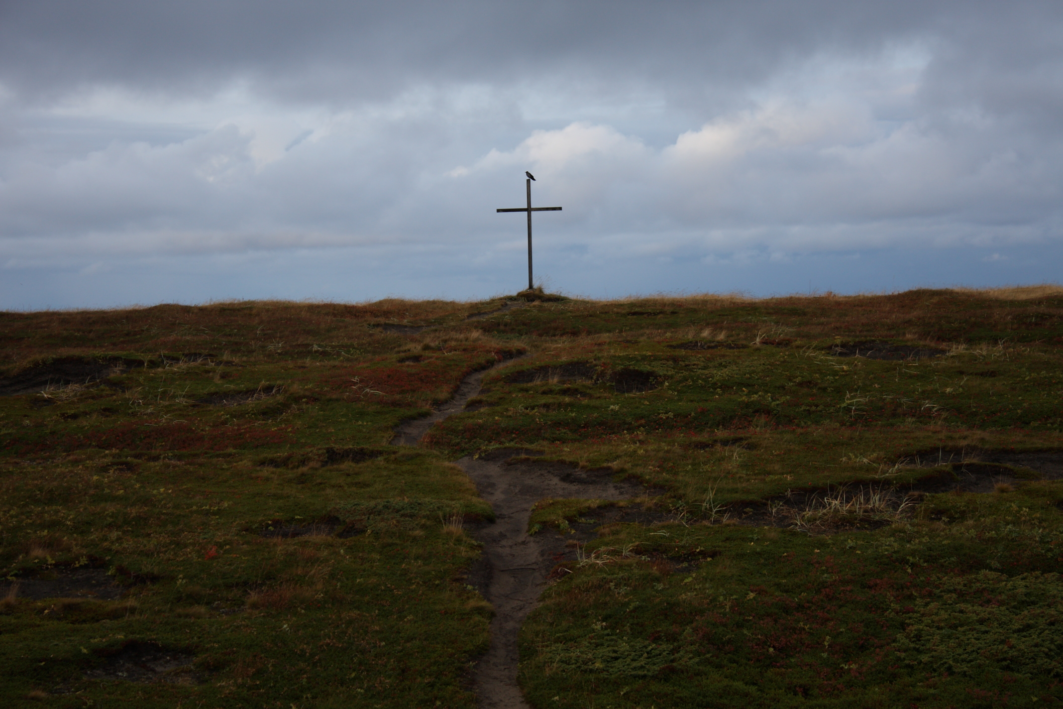 A cross close to the church in Grense Jakobselv, Norway.